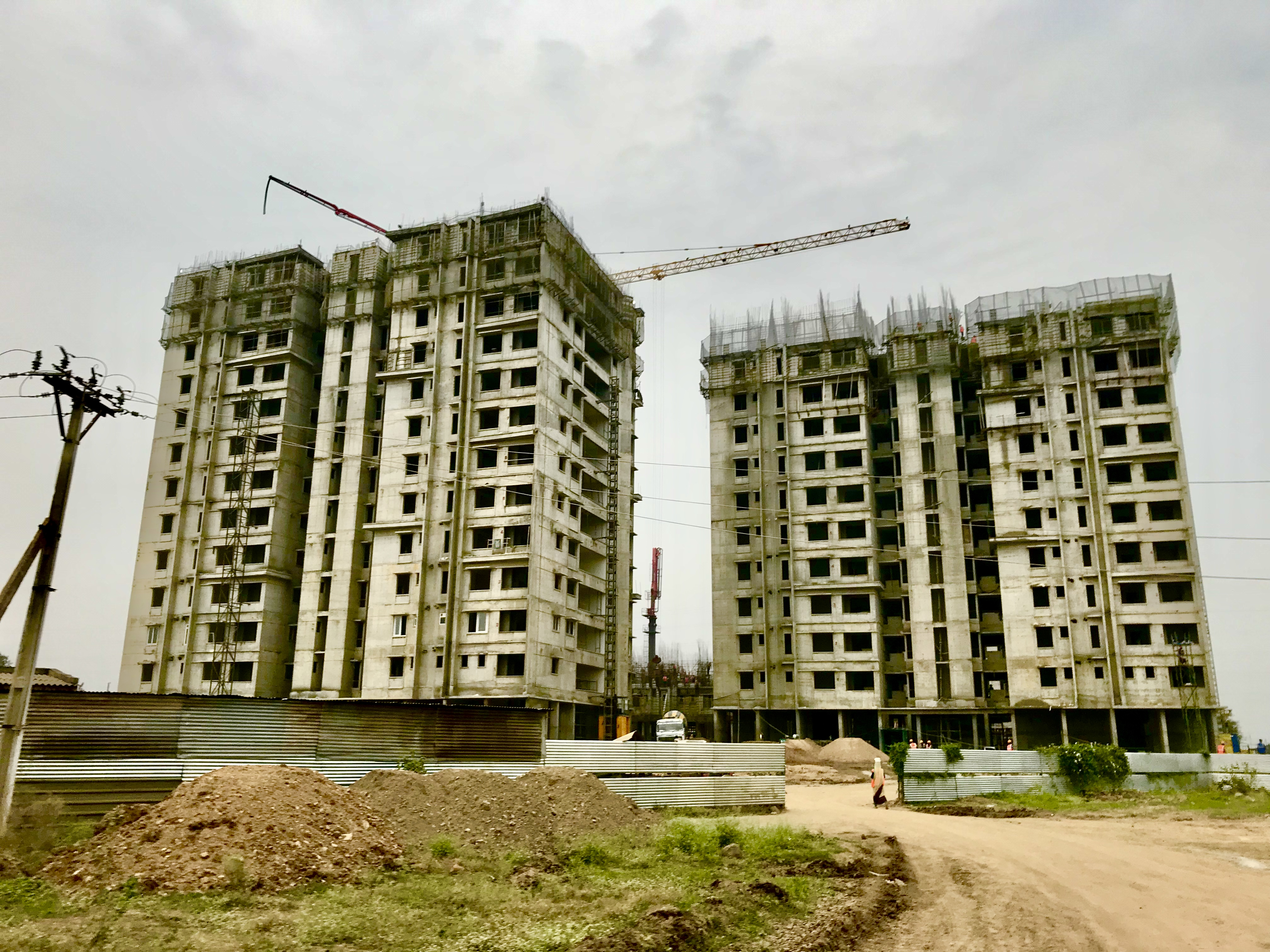 All India Services (AIS) housing under construction in Government complex of Amaravati